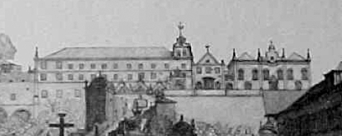 View of the Convent of Saint Anthony in Rio de Janeiro, Brazil